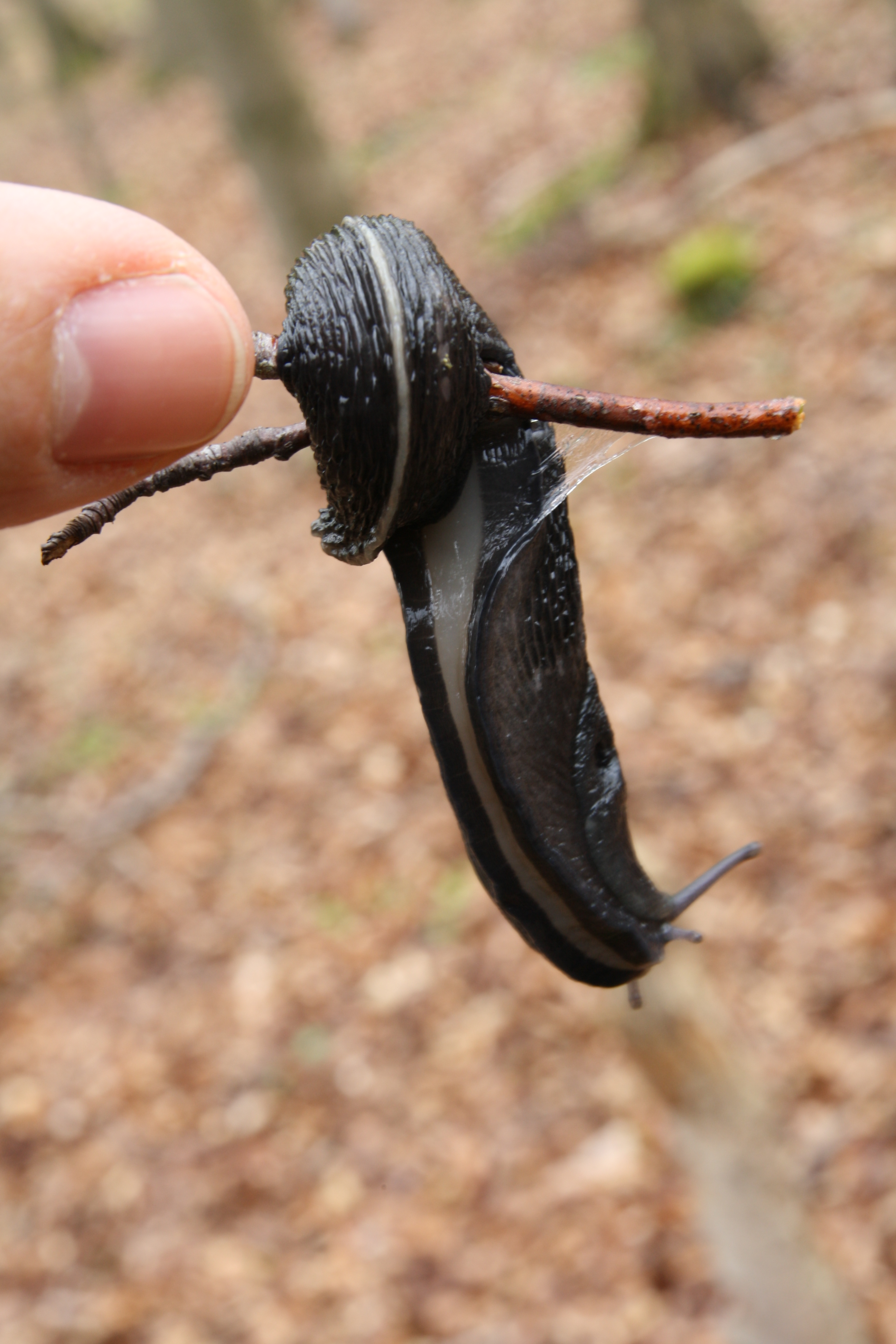 Kappes et al. (2010): „L. cinereoniger occurs at (...) well structured old-growth sites that are rich in coarse woody debris.“ The municipal forest in Hümmel, managed ecologically, is an investigational object for four final assignments at the Institute for Environ­mental Research (RWTH Aachen) from 2010 to 2011.